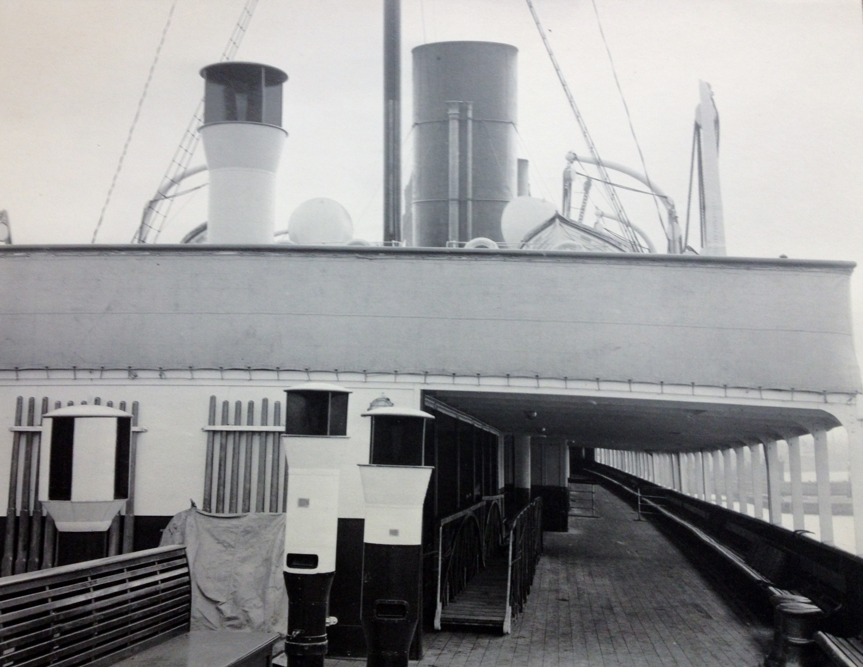 Deck view looking forward on Ben-my-Chree.